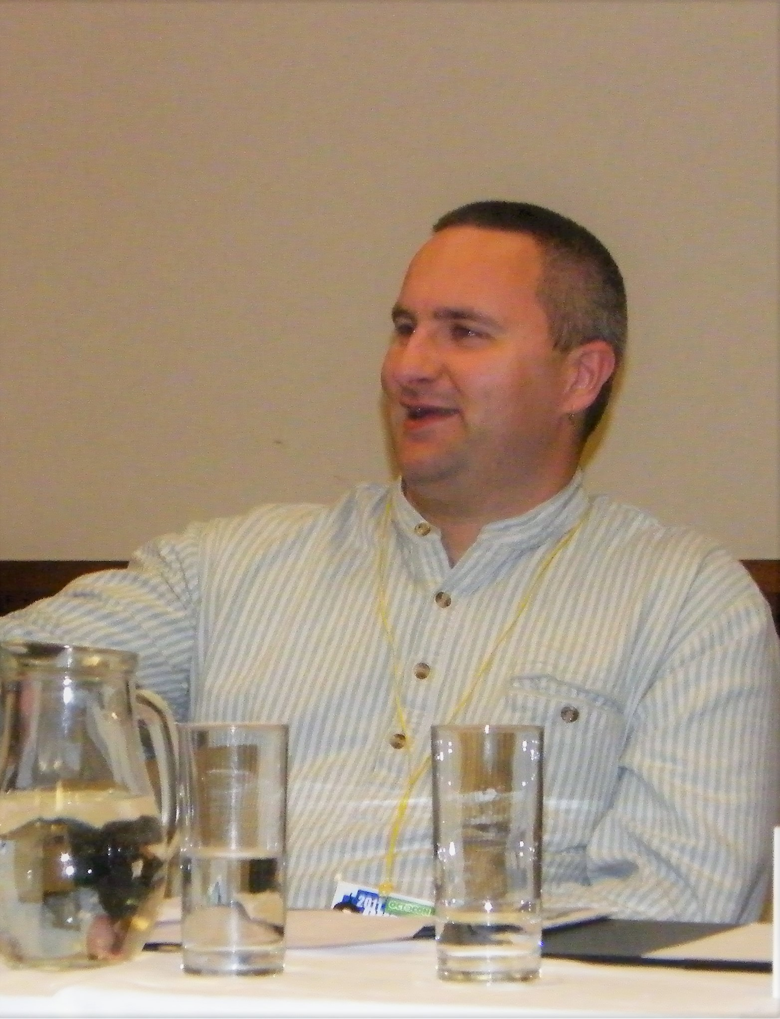 Oisin McGann, guest at Octocon 2011